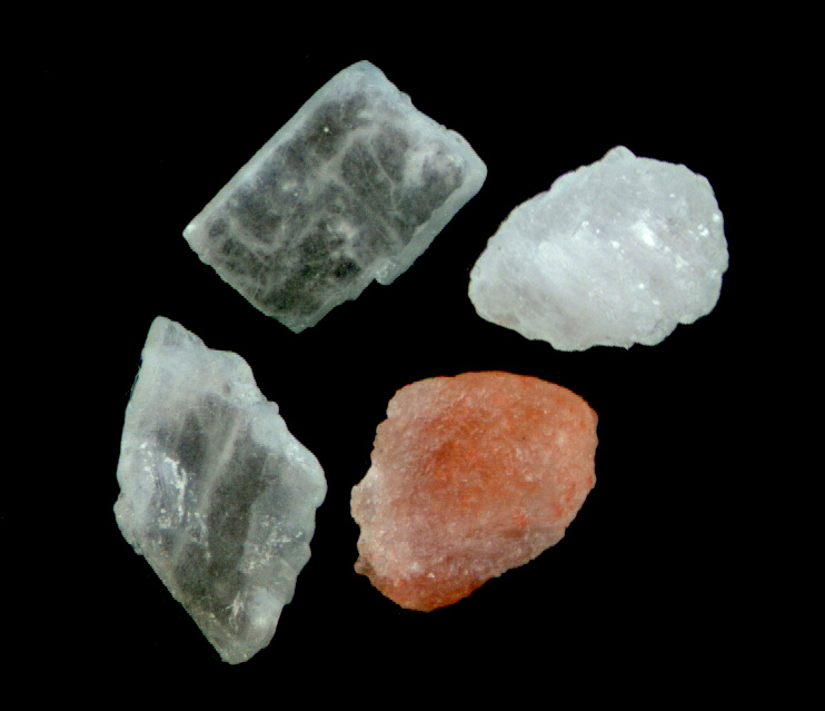 Himalayan rock salt crystals.